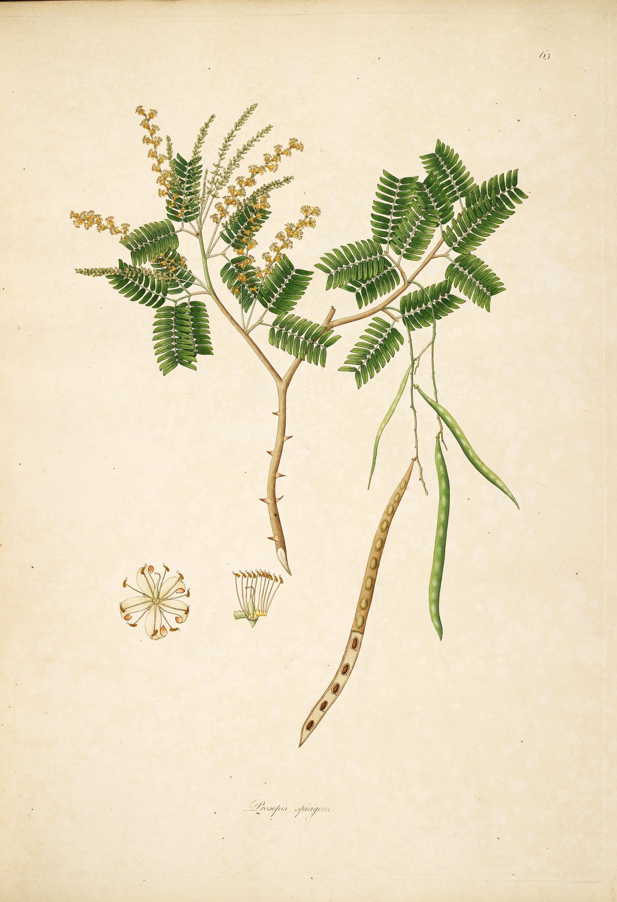 Plants of the coast of Coromandel :. London :Printed by W. Bulmer and Co. for G. Nicol, Bookseller,1795-1819.. For this 1795 publication with detailed text description on flora in India, see William Roxburgh, Plants of the coast of Coromandel - Volume 1 Coromandel coast stretches from Tamil Nadu to Andhra Pradesh states of India The scientific botanical name is at the bottom of the illustration plate. This 18th century illustration qualifies for PD-Art license.